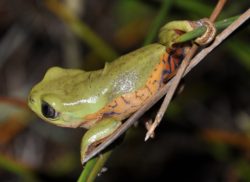 Paratypes of Phyllomedusa rustica: individual during call activity perched near the ground in herbaceous vegetation at the margin of a pond.